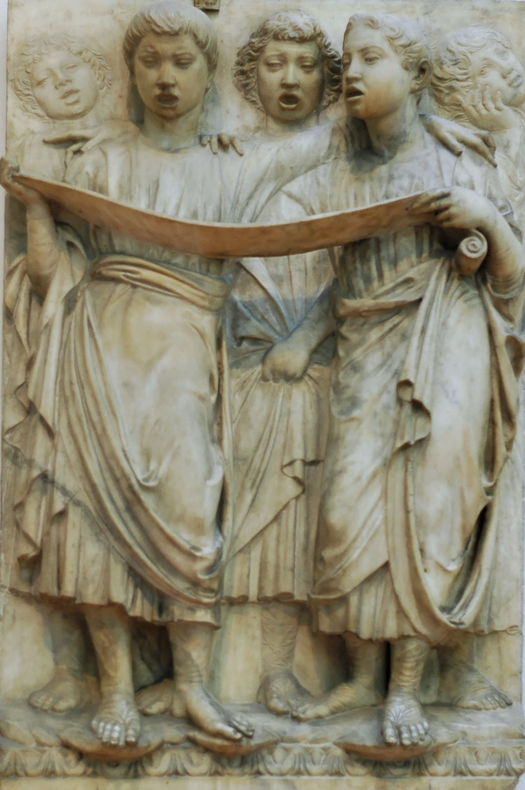 Boys singing, illustration of Psalm 150 (Laudate Dominum). Panel decorating the cantoria (singers' gallery), actually a balcony for the 1438' organ of the Duomo. Museo dell'Opera del Duomo, Florence, Italy. Marble.